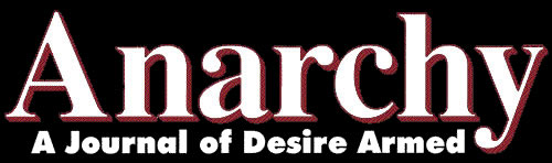 This is the logo of Anarchy: A Journal of Desire Armed